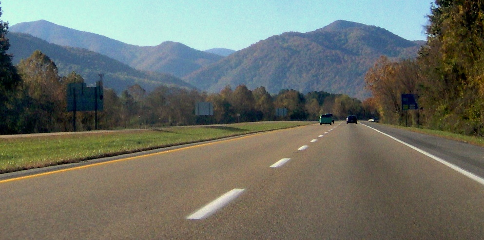 The Bald Mountains, viewed from Interstate 26 near Erwin, Tennessee, United States.